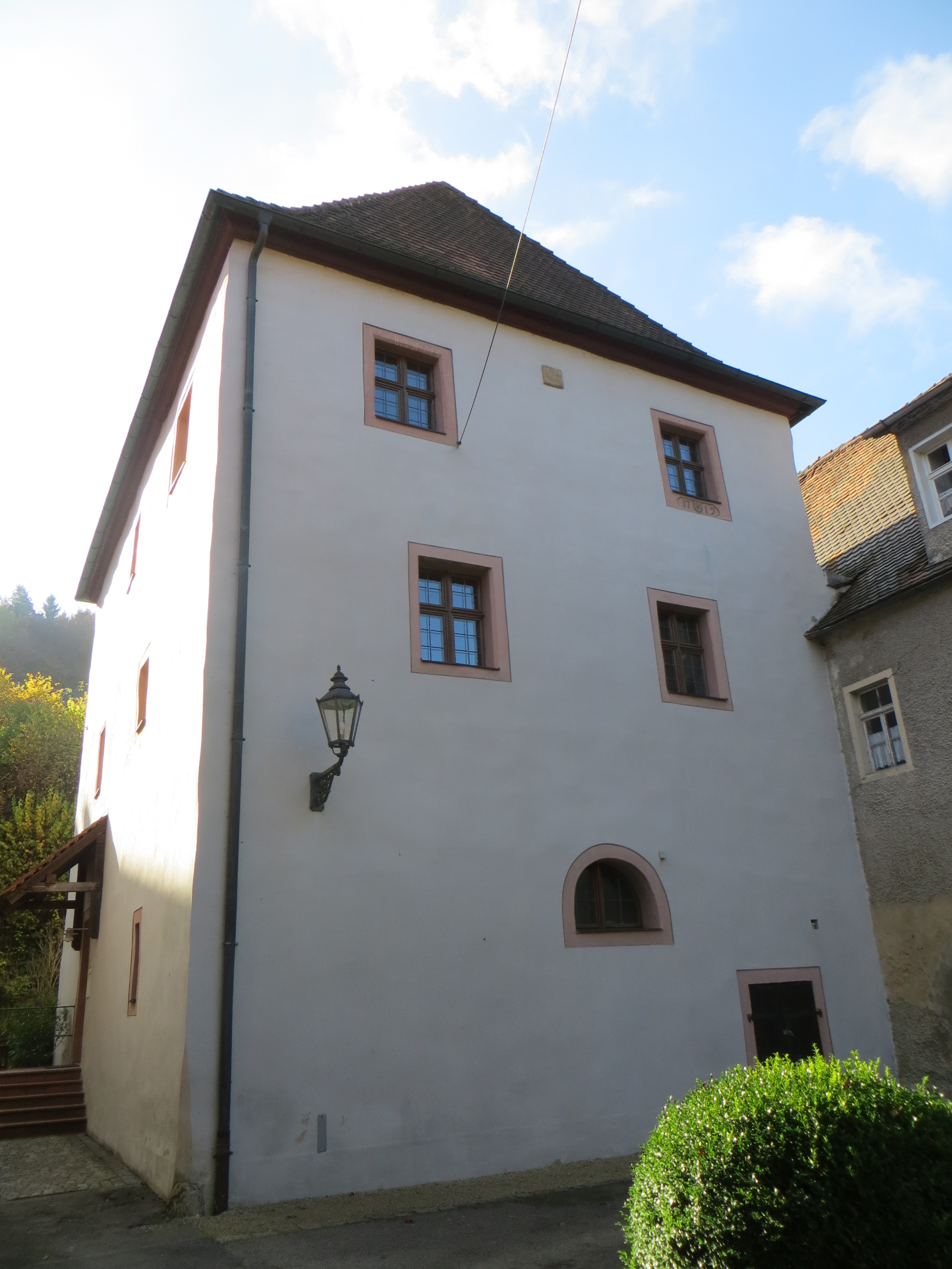 Haunritz Castle